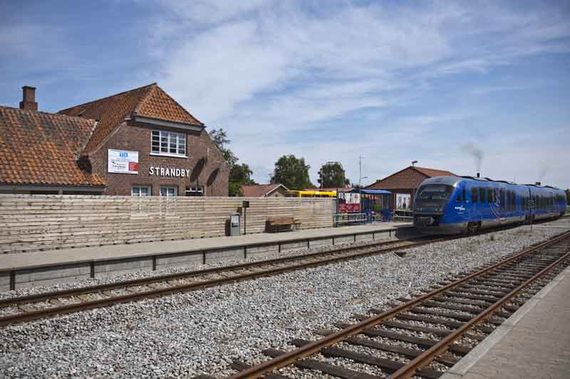 Strandby station, situated app. 6 km northwest of the danish city Frederikshavn, train departure, june 2009